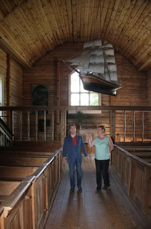 Dmitry Medvedev, the President of Russia, and Tarja Halonen, the President of the Republic of Finland, in Själö Church in Väståboland, Finland.